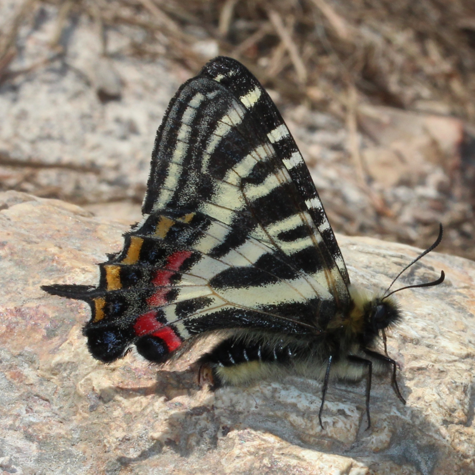 Luehdorfia japonica, side on the rock, in Japan.